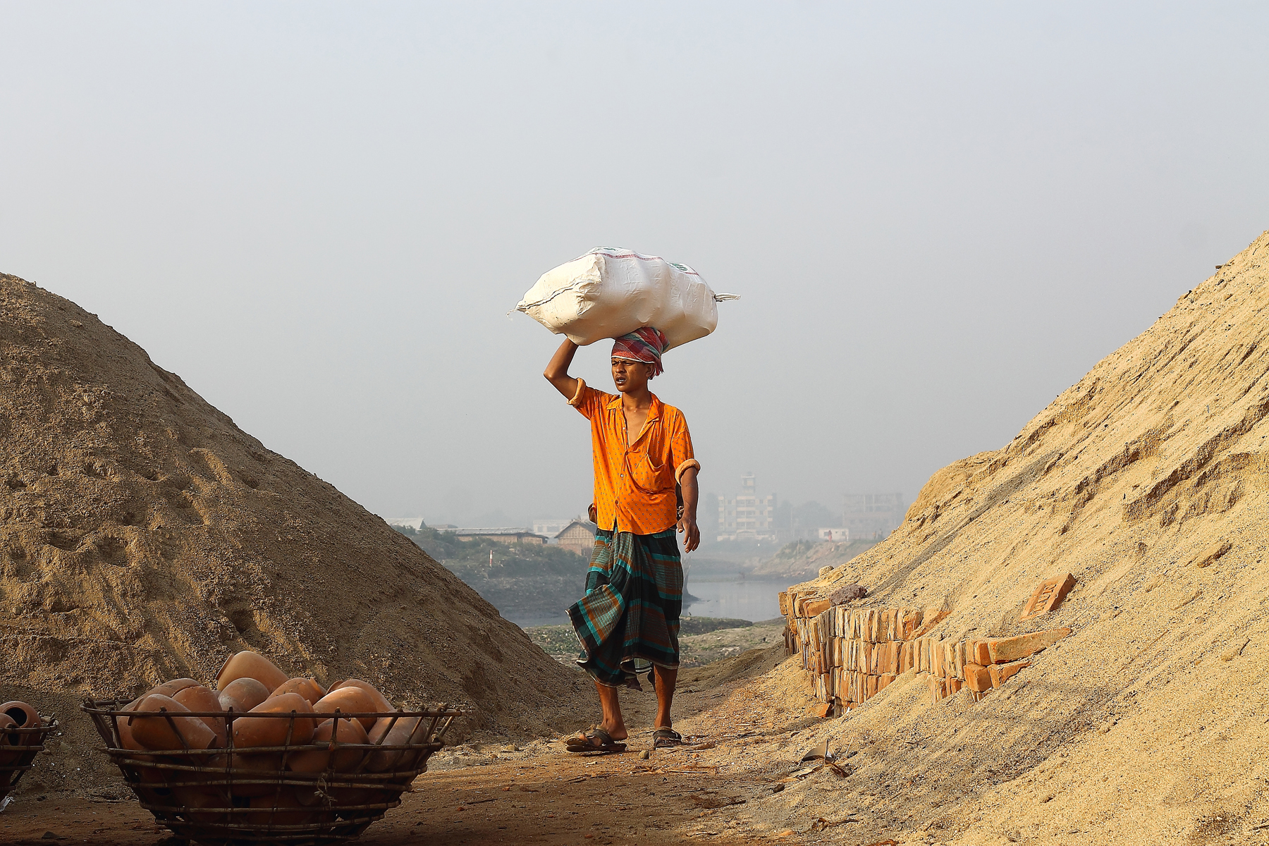 Lifestyle Photography ▓▓▓▓▓▓▓▓▓▓▓▓▓▓▓▓▓▓▓ Photographer: Jubair Bin Iqbal Copyright © JBI Gallery Website Cellphone +88 01714 332 553 Bangladesh